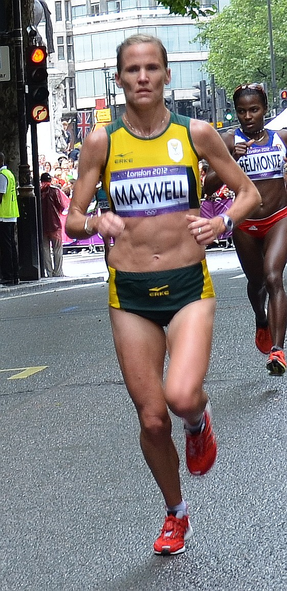 Tanith Maxwell (South Africa) in the marathon (w) at the Olympic Games 2012